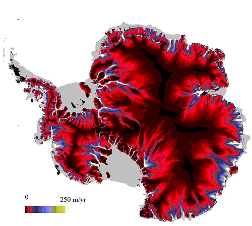 Balance velocities for Antarctic Ice Sheet